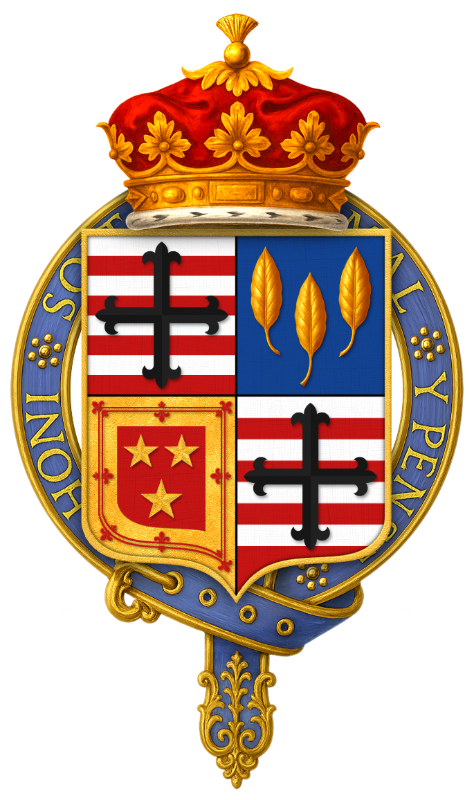 Garter encircled shield of arms of Cromartie Sutherland-Leveson-Gower, 4th Duke of Sutherland, KG, as displayed on his Order of the Garter stall plate in St. George's Chapel.